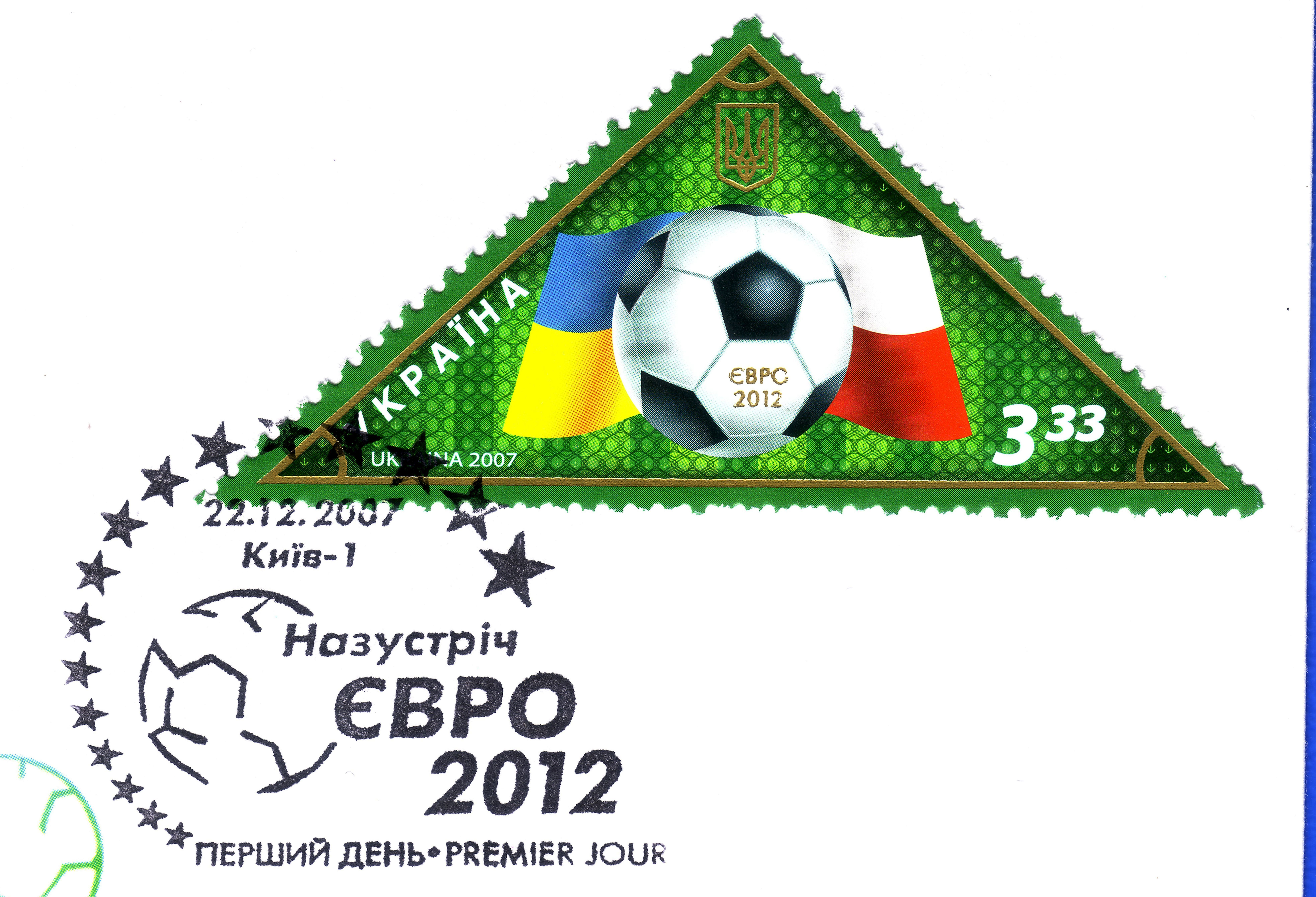 Stamp of Ukraine # 875 EURO Football 2012 on cover. First day postmark.